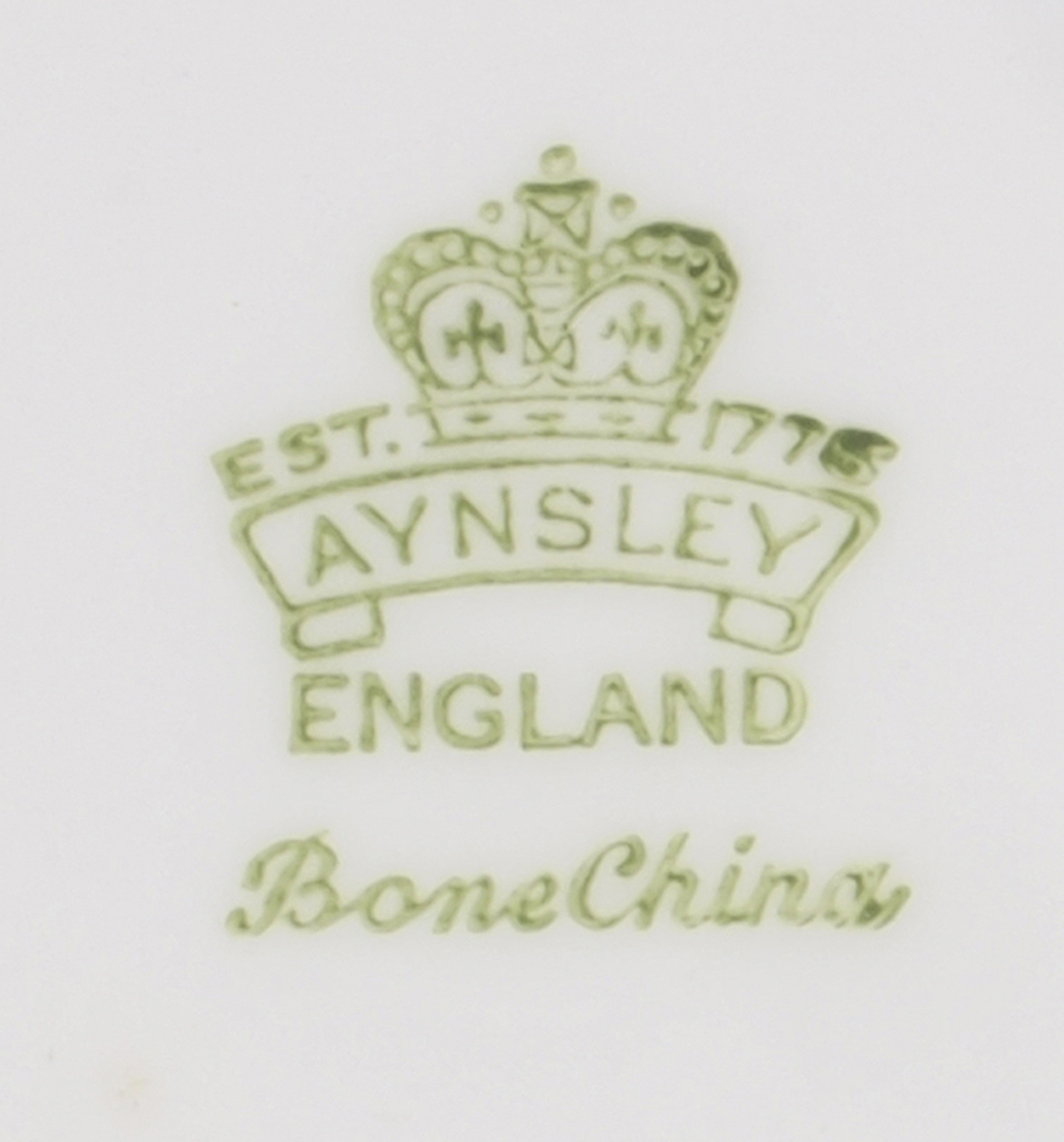 OLYMPUS DIGITAL CAMERA: photo of Aynsley China crest from base of plate